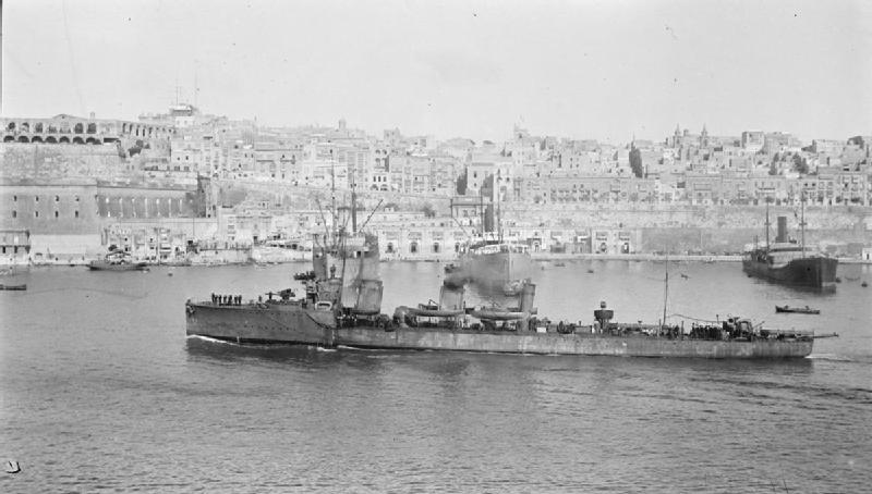 Photograph of British destroyer HMS Grampus (originally HMS Nautilus) entering Valletta harbour, Malta.